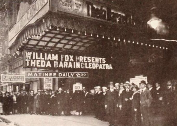 Colonial Theatre in Chicago showing the American drama film Cleopatra (1917), on page 39 of the June 15, 1918 Exhibitors Herald.